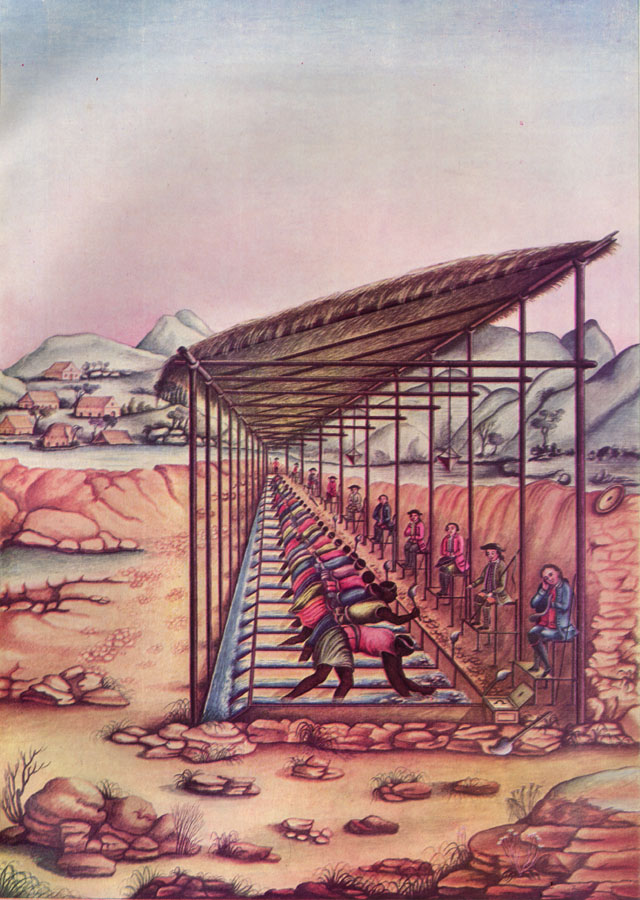 Diamond Washing, Serro Frio, Brazil